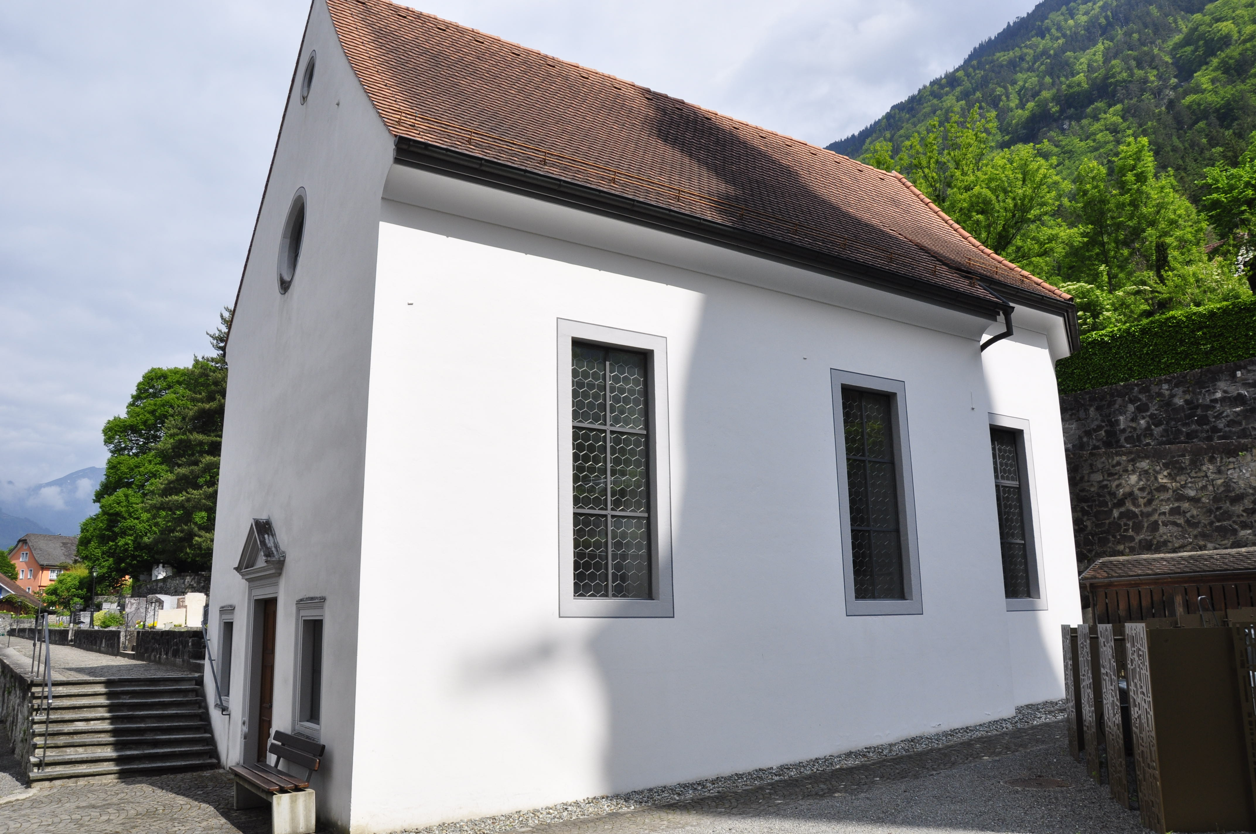 Ölbergkapelle bei der Pfarrkirche St. Martin